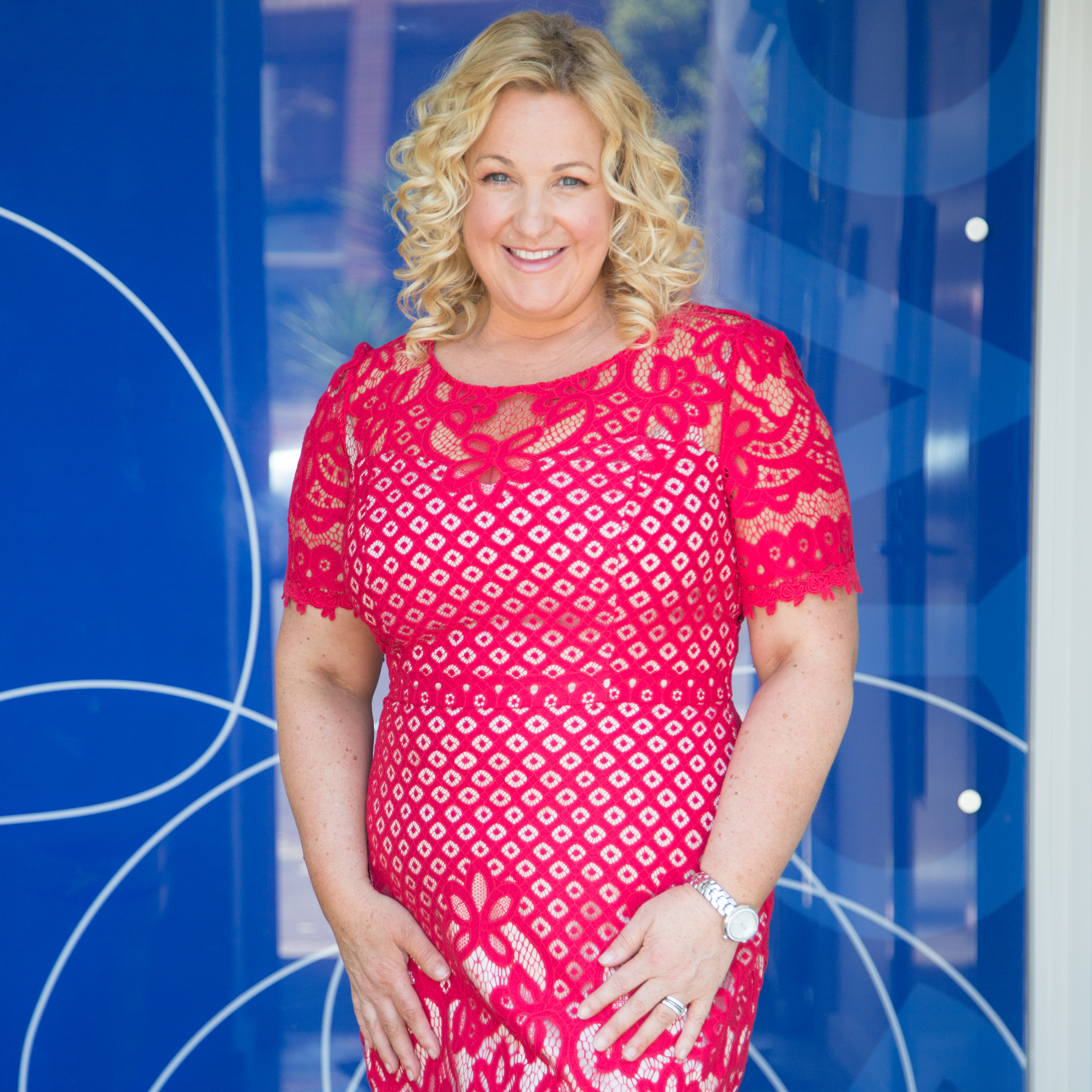 Kirsten Tibballs in 2016 Photographed by Kimberley Moore